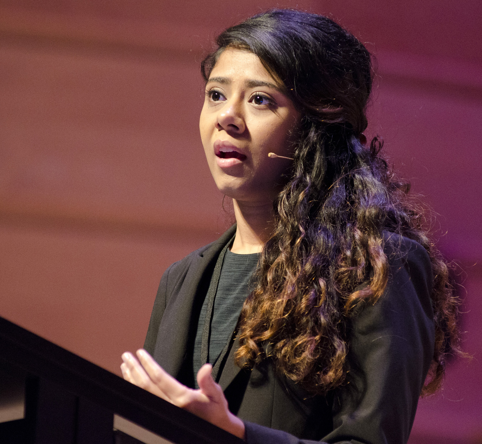 Sarah Haider speaking at the Australian Skeptics National Convention 2017. Topic: "Islam, Doubt and Space Pegasus".